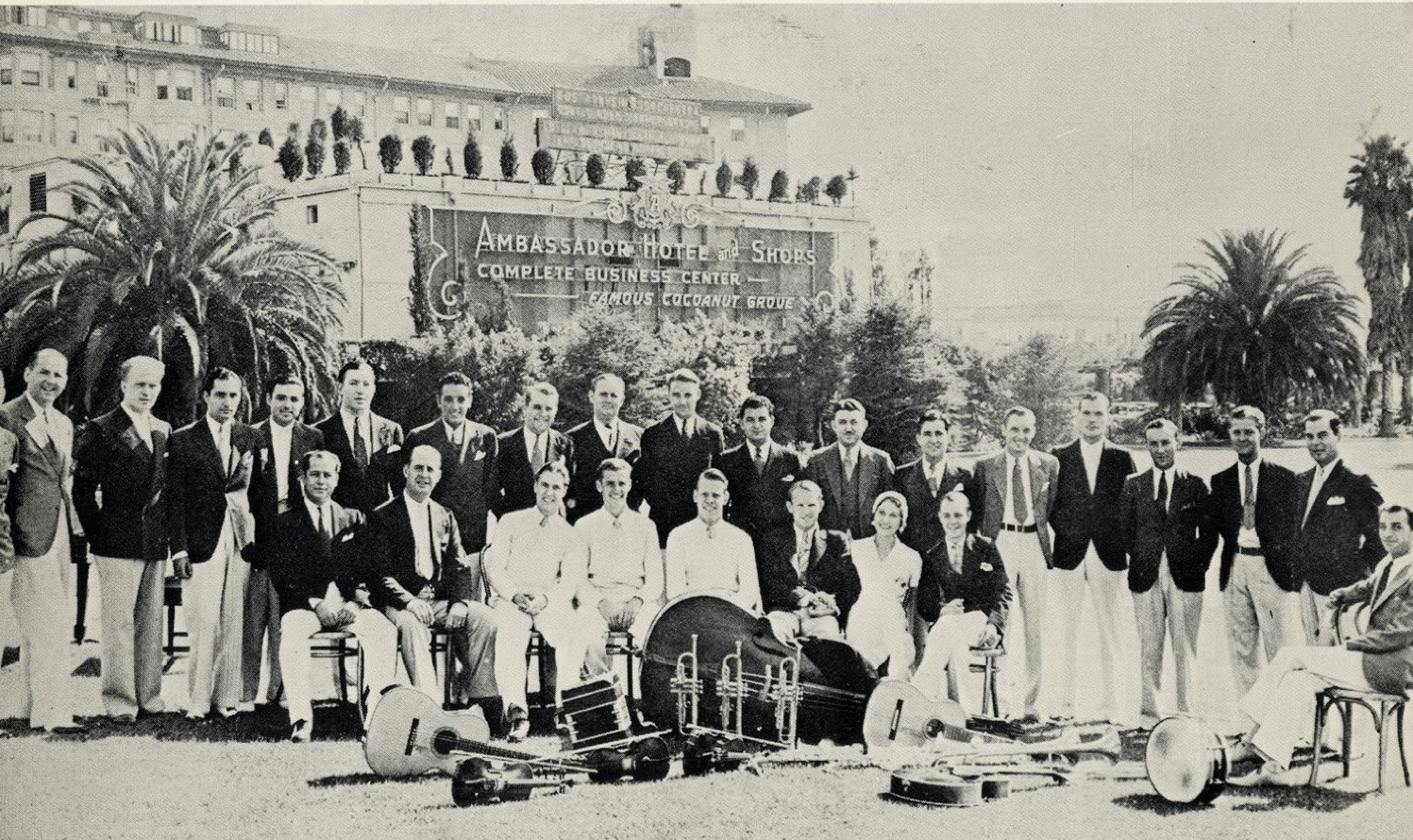 Band leader Gus Arnheim with his Orchestra in front of the famous nightclub The Cocoanut Grove at the Ambassador Hotel in Los Angeles, CA, circa. 1932.